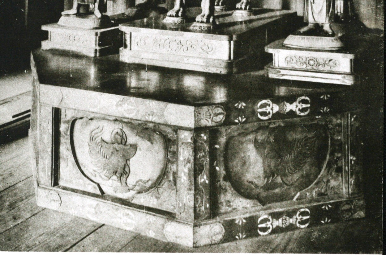 Octagonal Buddhist platform with mother of pearl inlay.Foliate panels fit in with gilt bronze border. Eight Karyobinga (winged female angels) on each panel holding a percussion instrument (on front panel) or flower pots (on other panels). Heian period Platform. Lacquered wood with mother of pearl inlay, gold and silver. Height: 52.4 cm, diameter: 193.9 cm, side length : 74.5 cm. Iwate Hiraizumi Chusonji, Japan